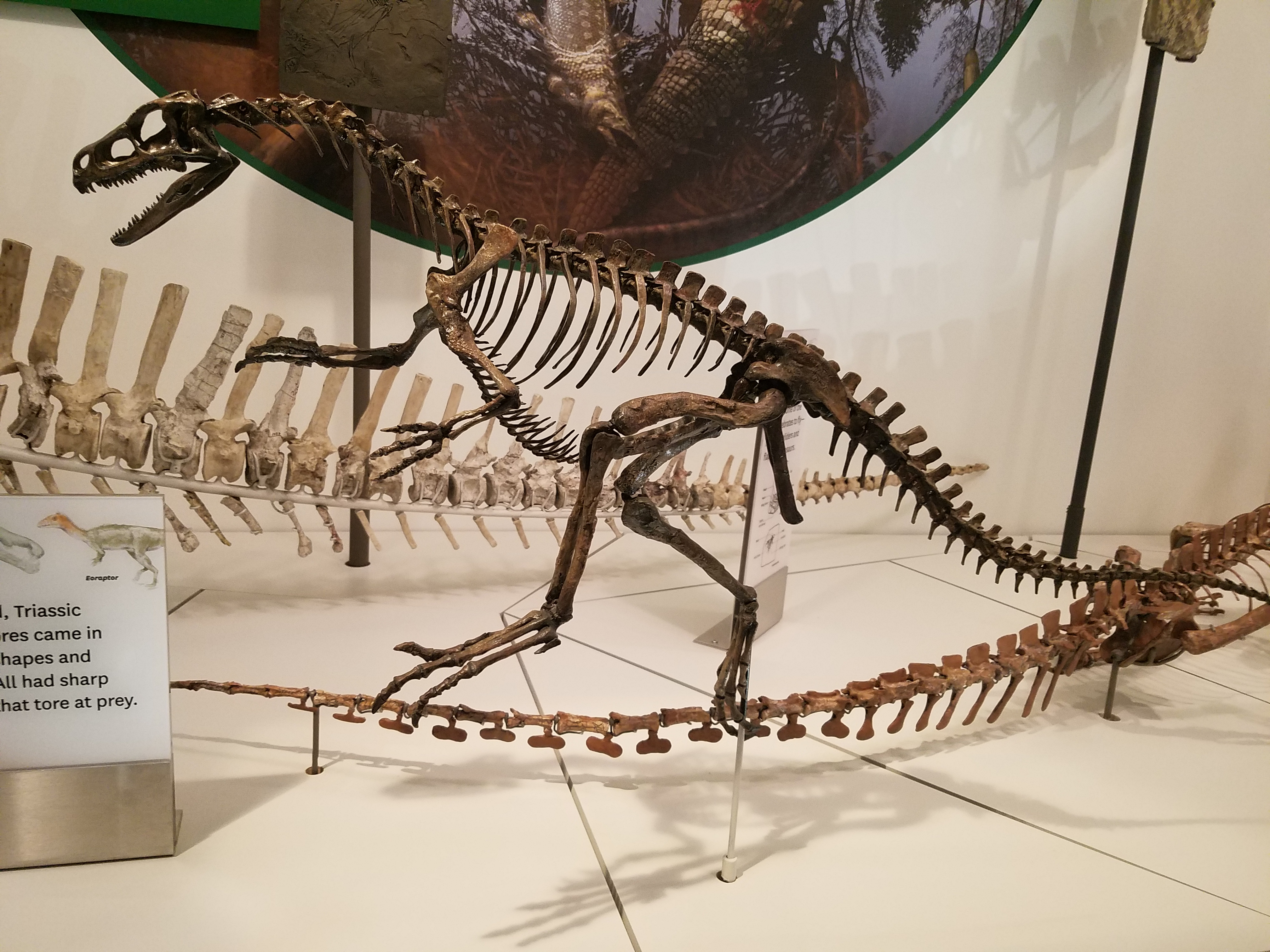 A skeletal mount of Eoraptor lunensis, displayed at the National Museum of Natural History's Deep Time fossil hall.